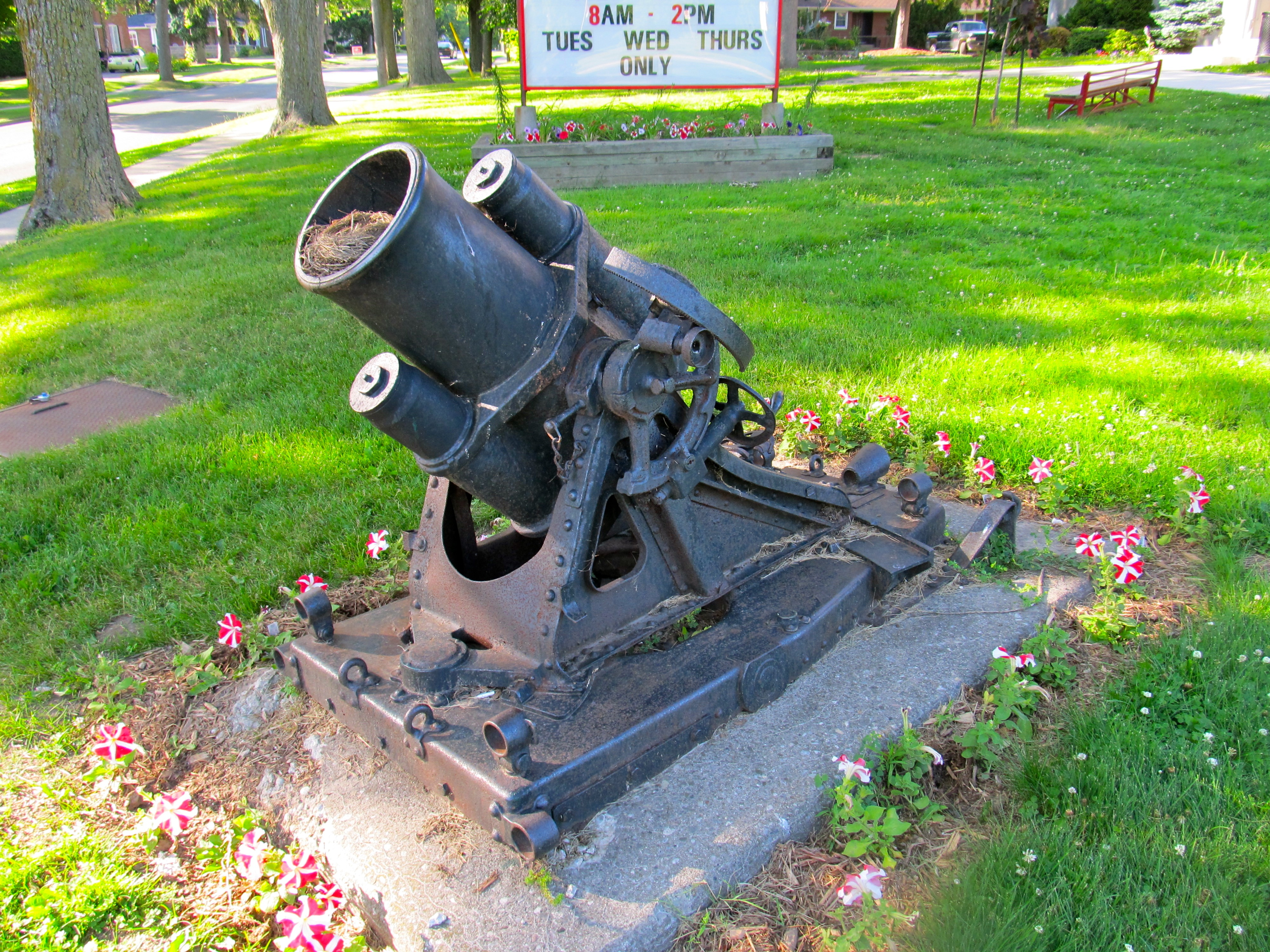 25 cm Minenwerfer in Waterford, Ontario. Displayed as monument in front of high school.